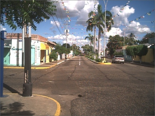 CALLE DE CANTAURA